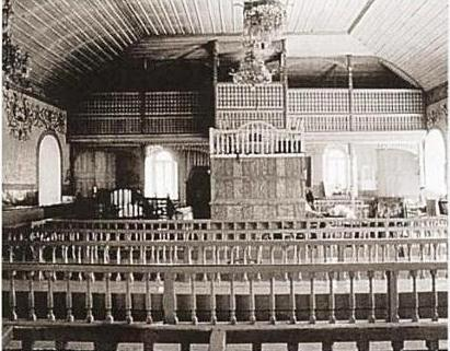 Great Synagogue, Akhaltzikhe, 1863: interior facing two tevot.